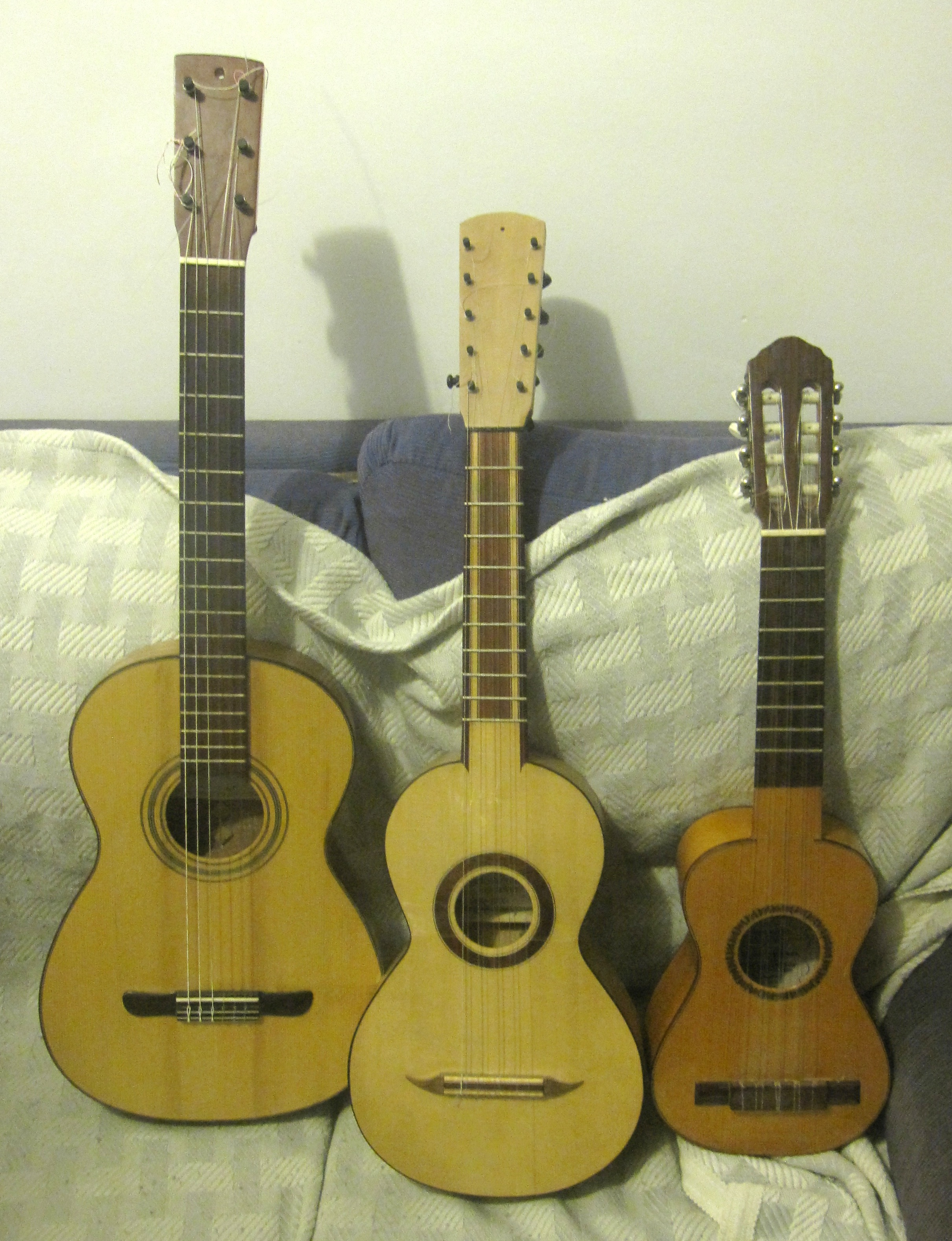 Traditional instruments of the South-East of Spain: guitar, guitarro tenor and requinto or guitarro (baroque guitars)